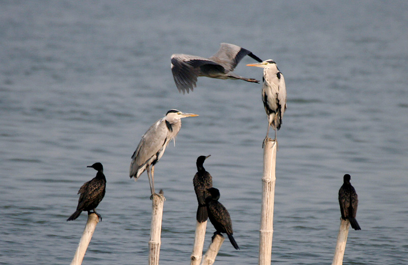 Grey Heron Ardea cinerea in Kolkata, West Bengal, India.